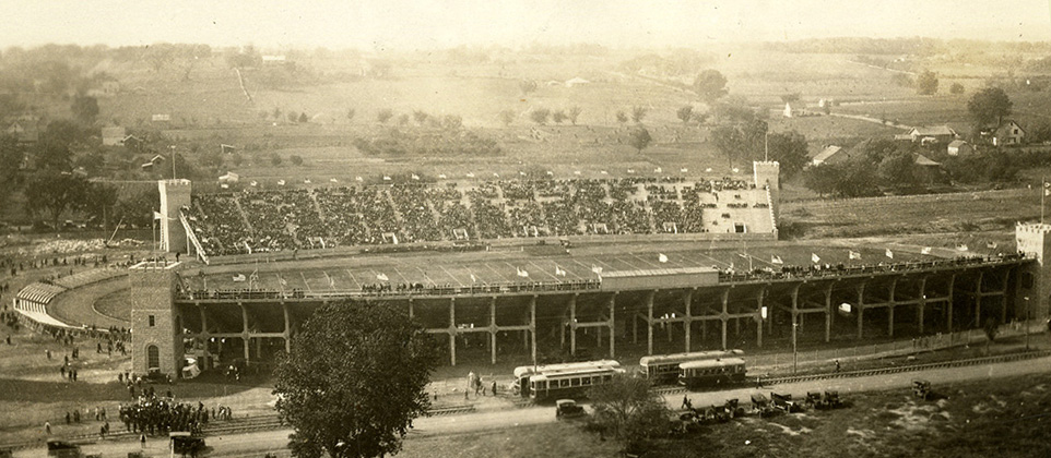 Memorial Stadium in Manhattan, Kansas, on the day of a college football game at Kansas State College of Agriculture in 1924.